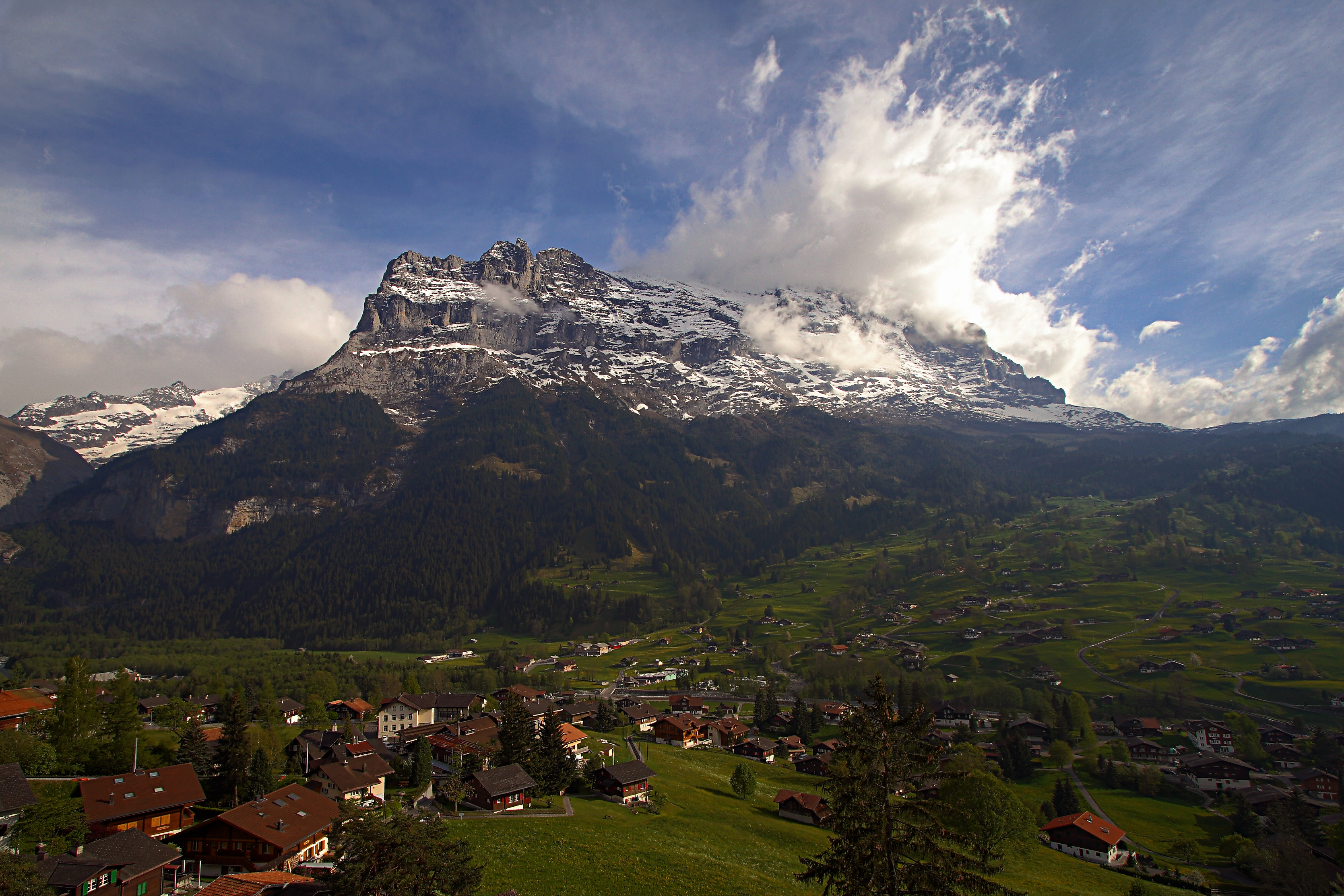 Shot from the Belvedere Hotel, Grindelwald, Switzerland.